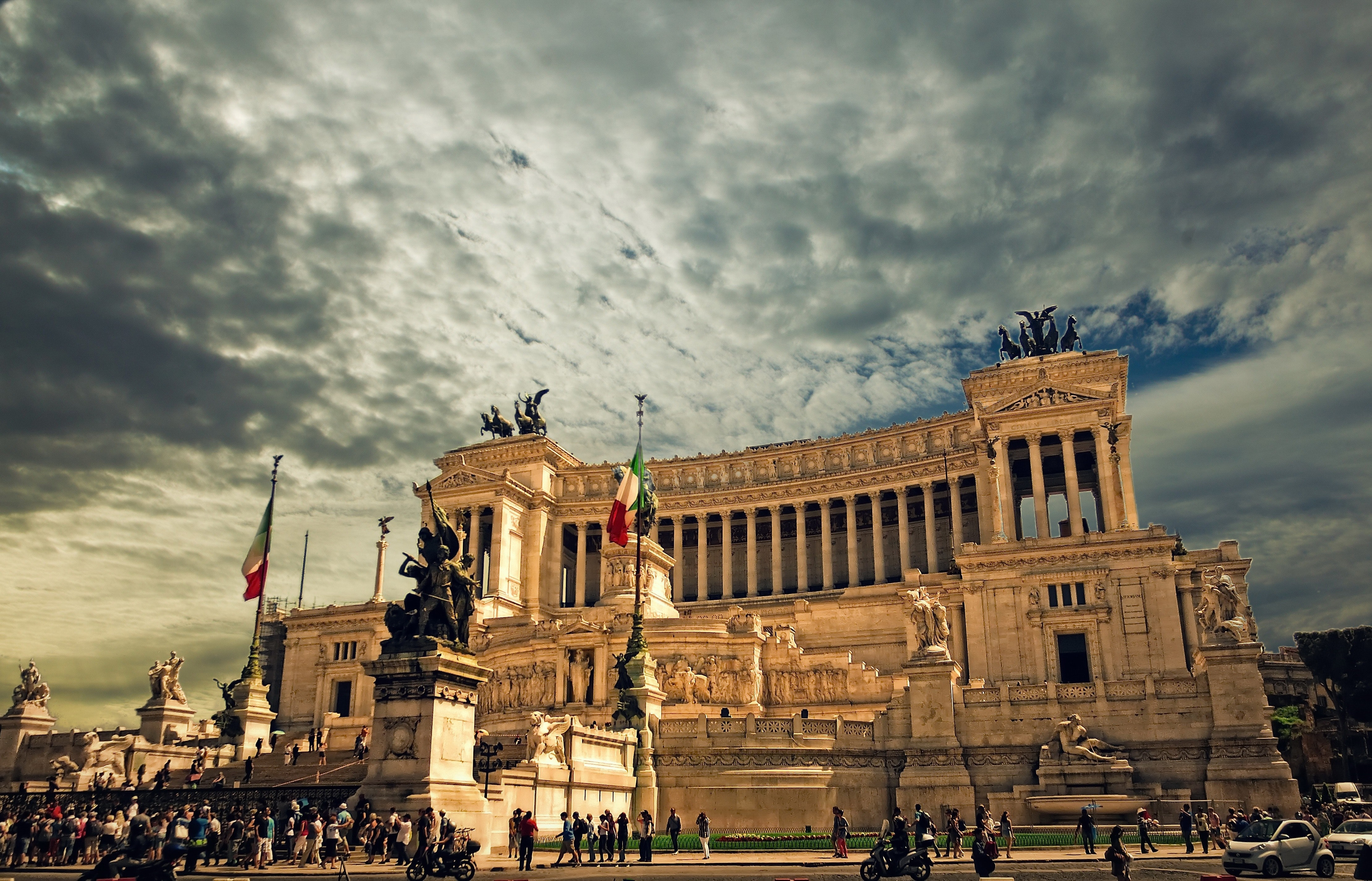 Grey Concrete High Rise Building Under White Clouds.